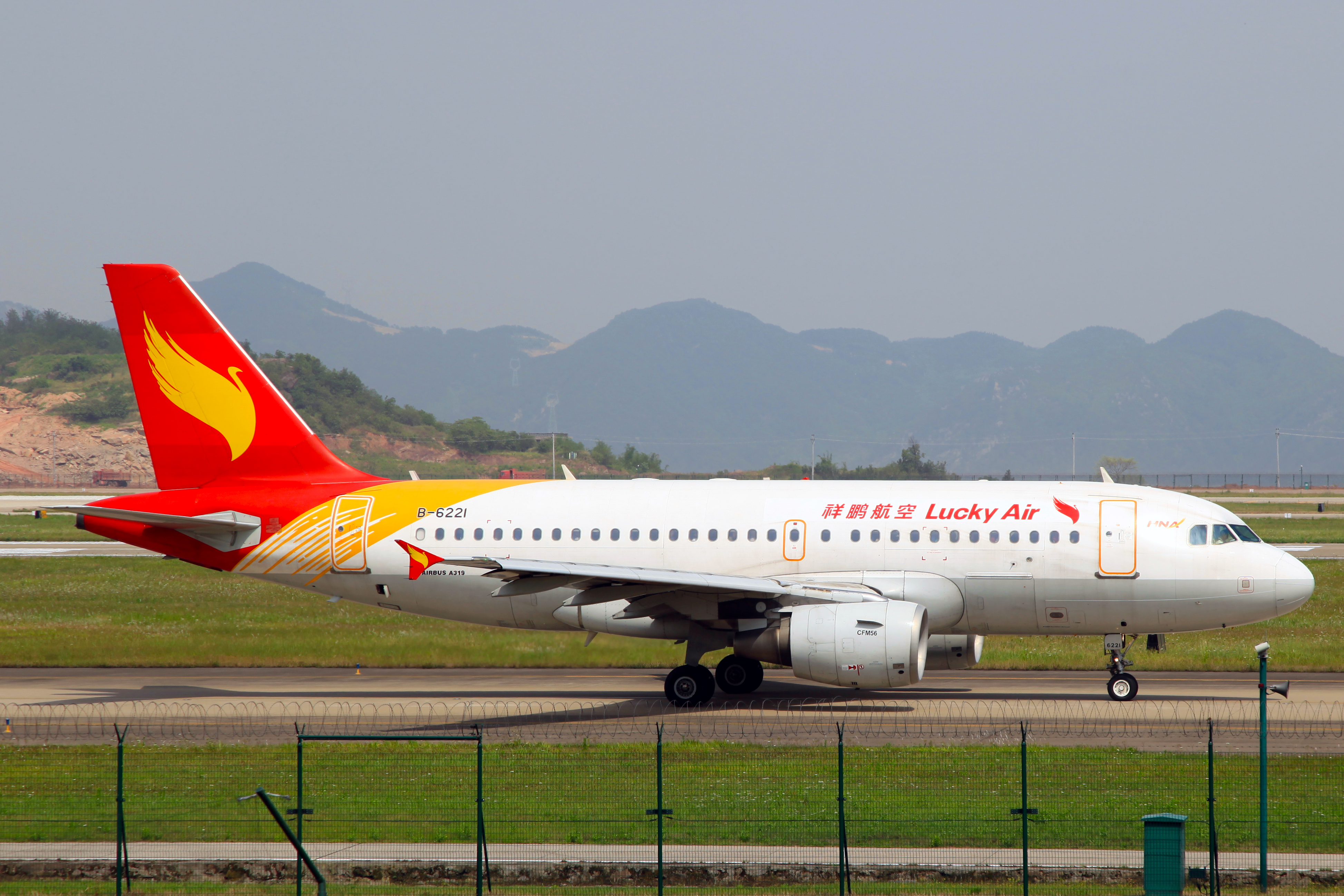 Lucky Air Airbus A319-112 B-6221 @ Chongqing Jiangbei International Airport